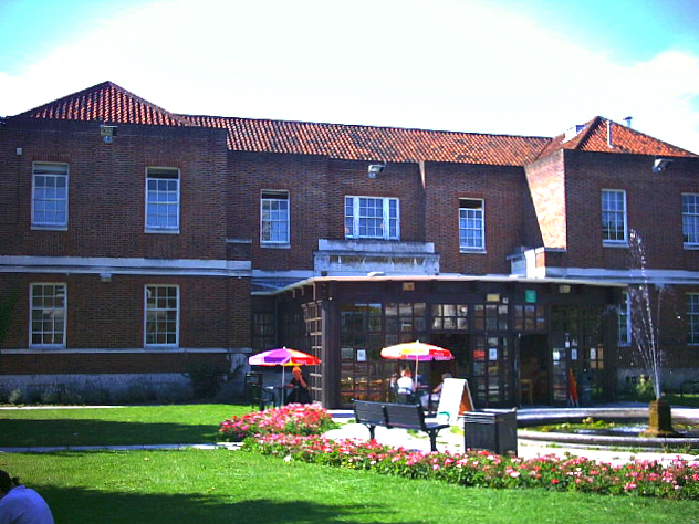 Wallington Library, Shotfield. This is the Coffee Shop side.